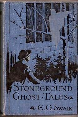 Front cover of 1912 edition of Edmund Gill Swain's (1861-1938) book "Stoneground Ghost Tales" (1912)